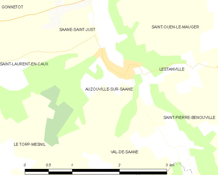 Map of French municipality Auzouville-sur-Saâne